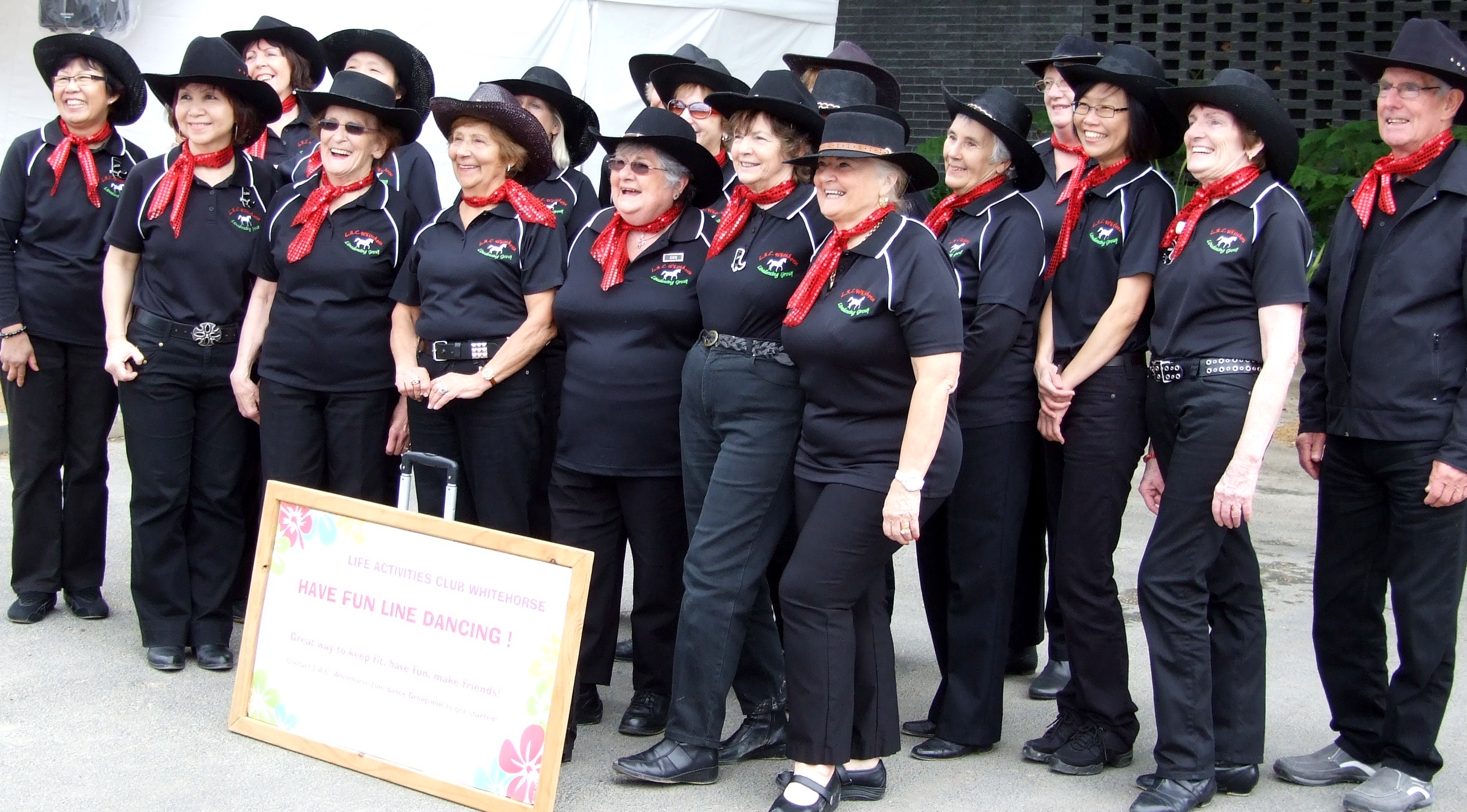 Line Dancing Group of the Whitehorse Life Activities Club, at the 2012 U3A Carnival of Learning at Federation Square, Melbourne